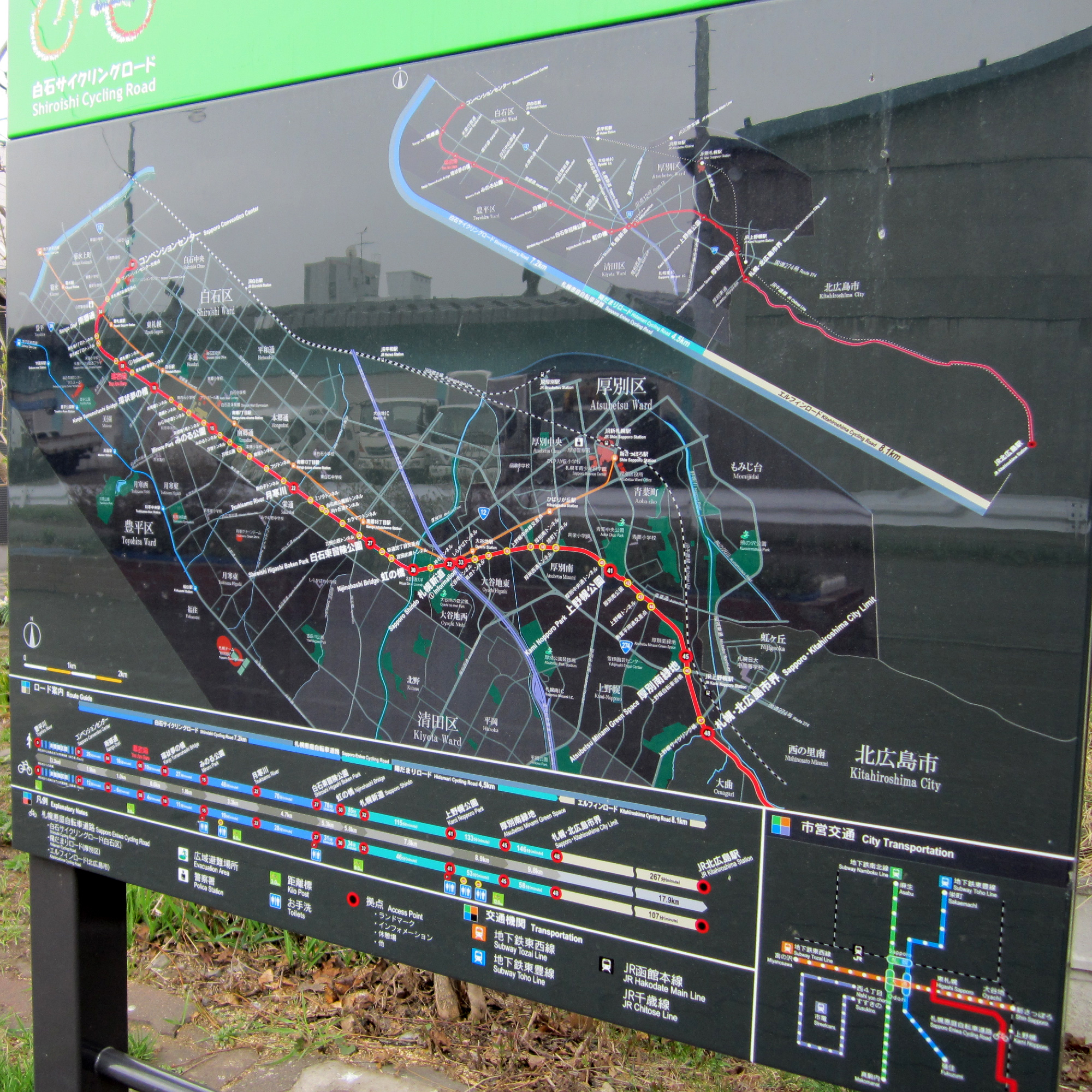 Location map for the Shiroishi Cycling Road in Higashi-Sapporo